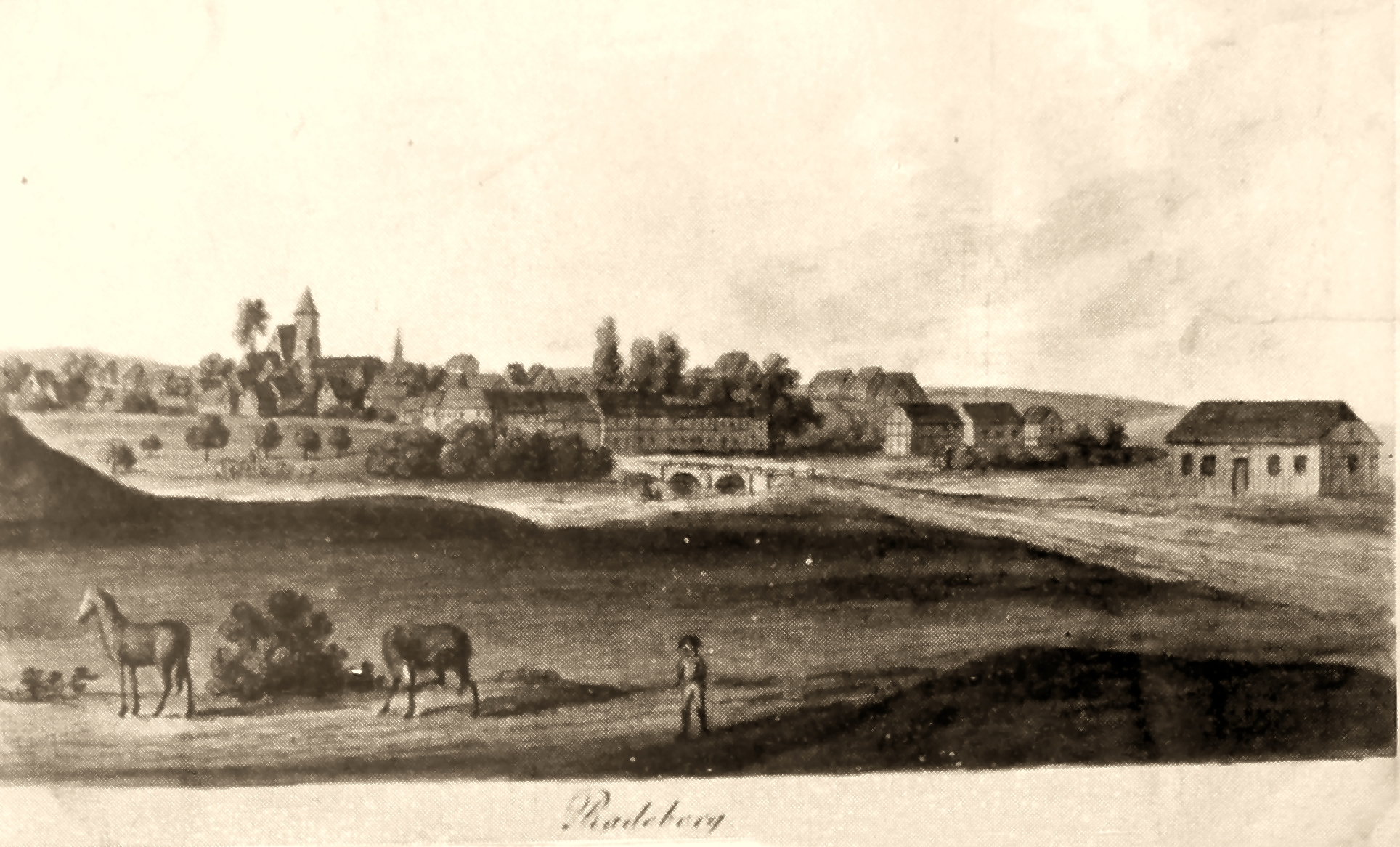 City view Radeberg with the 1764 built hospital bridge and old hospital (until 1771 single-storey, right) between 1764 and 1771